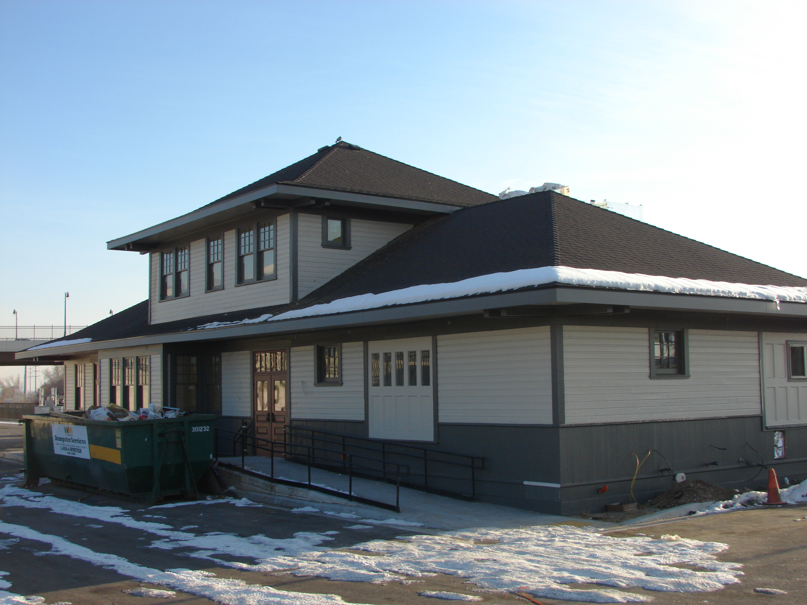 Northeast corner of the nearly restored Layton Depot in Layton, Utah--now located adjacent to the Layton FrontRunner station